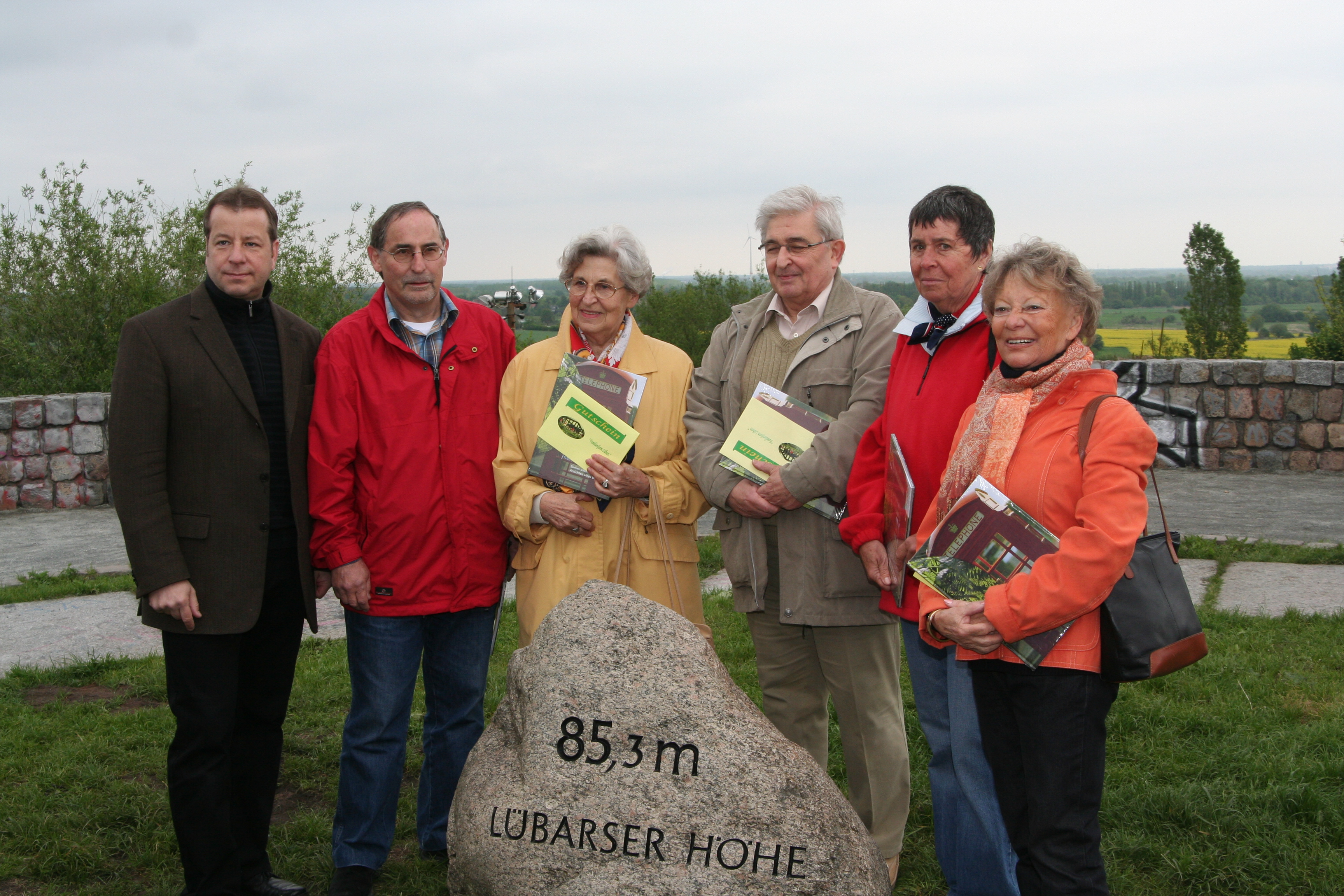 Naming of the former waste dump in berlin-Lübars: District mayor Frank Balzer (left, CDU) and the naming persons